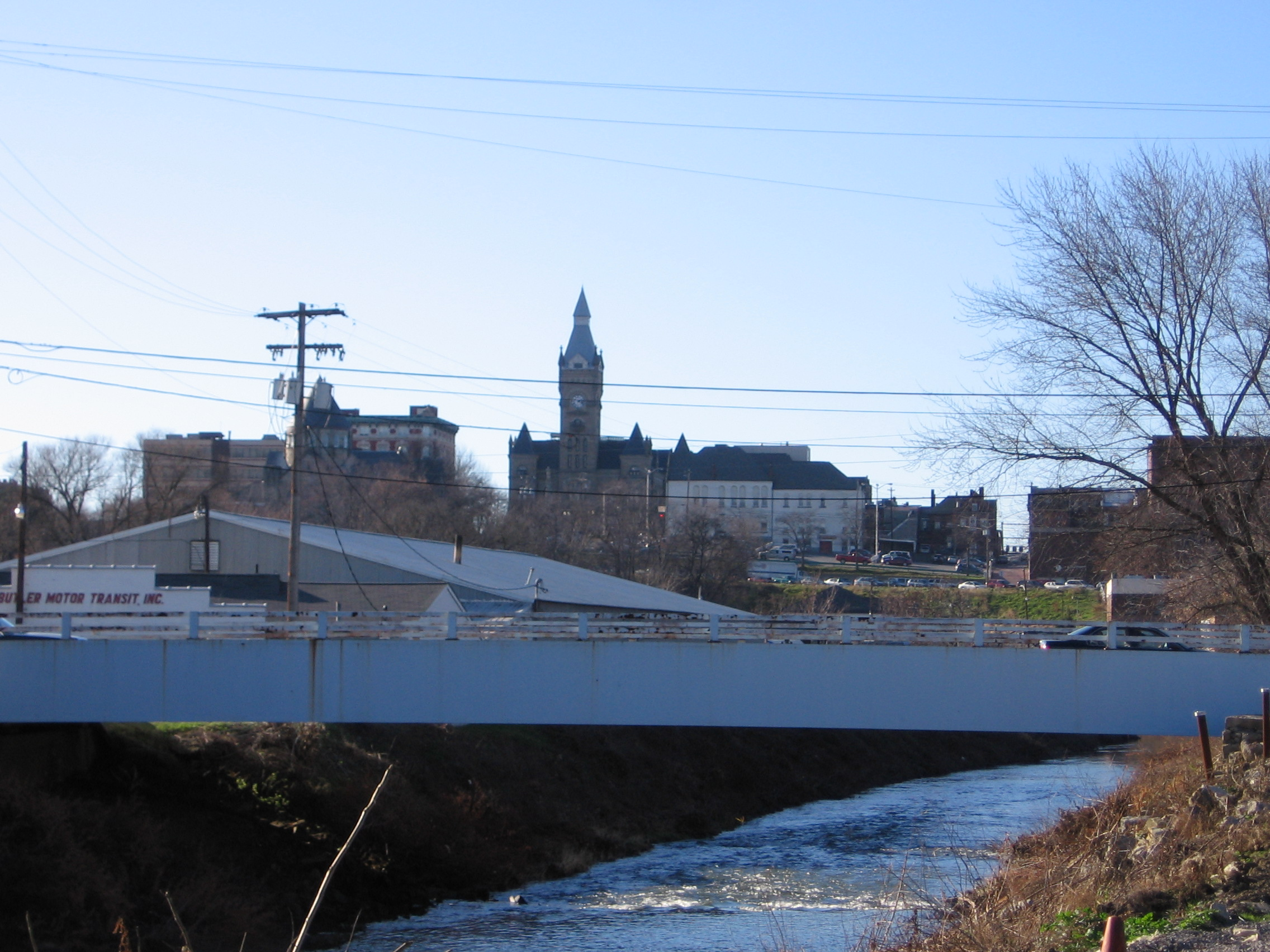 View of Butler from PA Route 68. Taken by Mvincec on 22 November 2006.